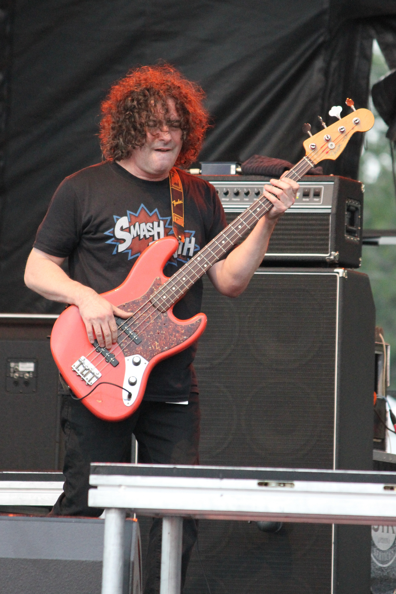 Paul De Lisle playing bass guitar with Smash Mouth at Bank of the West Celebrated America at Memorial Park in Omaha, Neb.